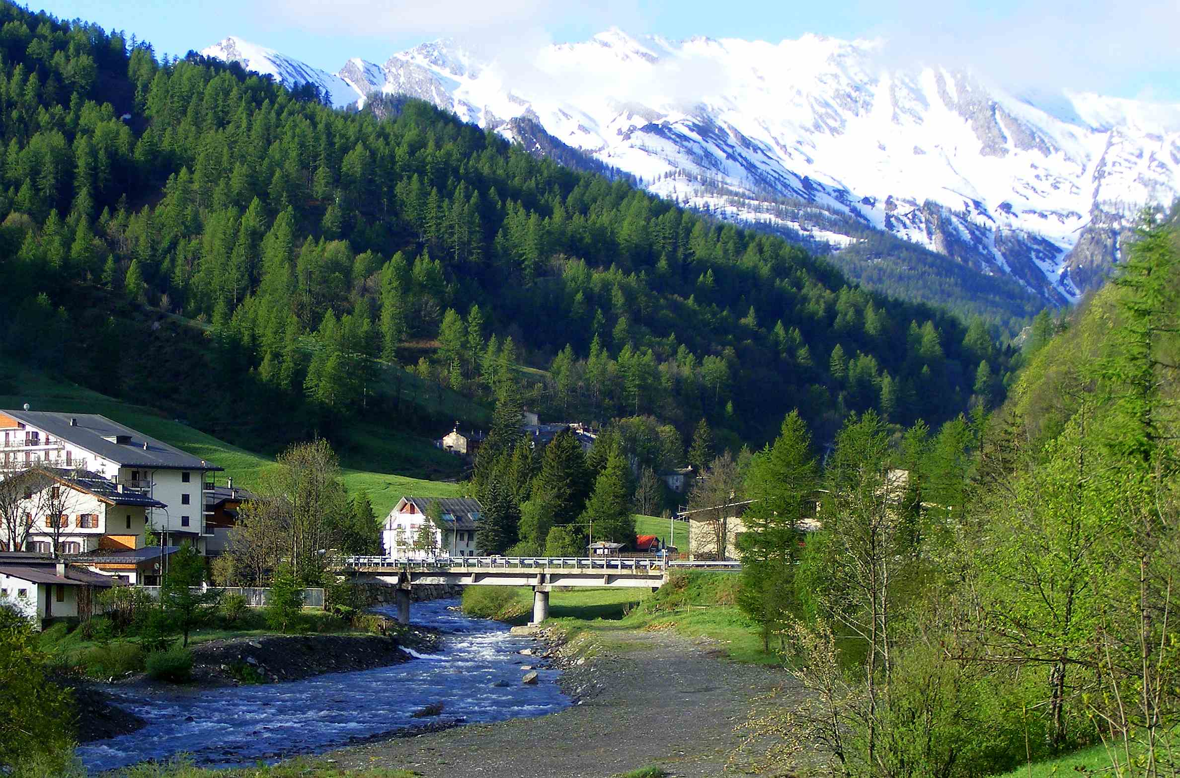 Germanasca creek near Praly (TO, Italy)